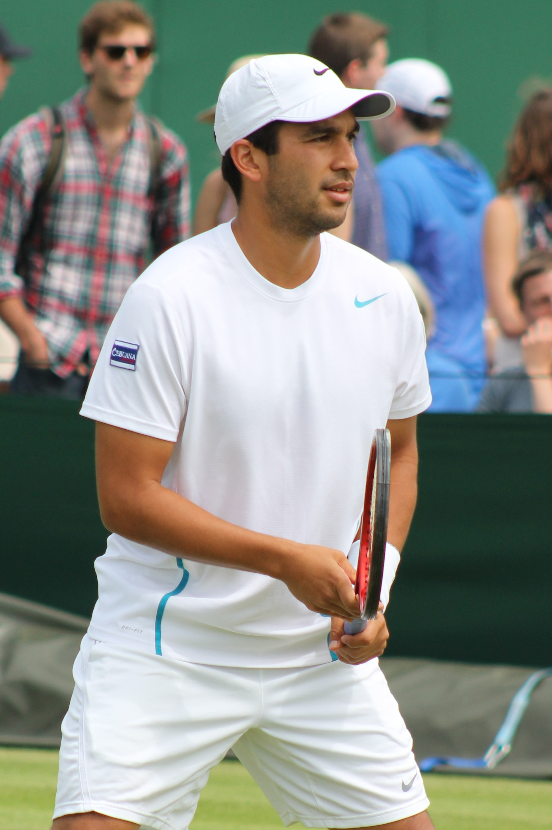 Huey WM13-003